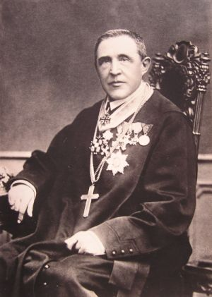 Beda Dudík, Moravian historian